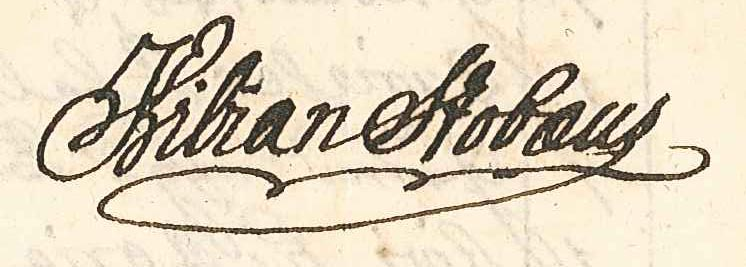 The signature of Kilian Stobæus (1690-1742), professor of first natural history and physics, later of history at Lund University.